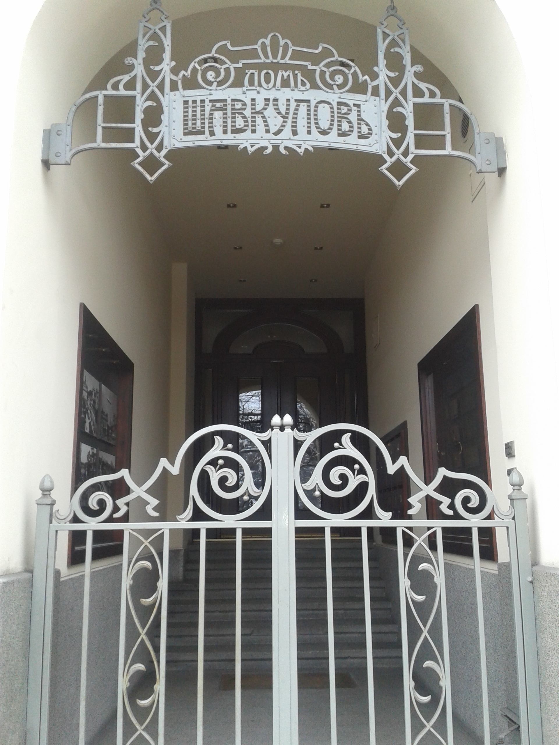 Art Nouveau entrance of Shavkulov's house in Sofia, Bulgaria.